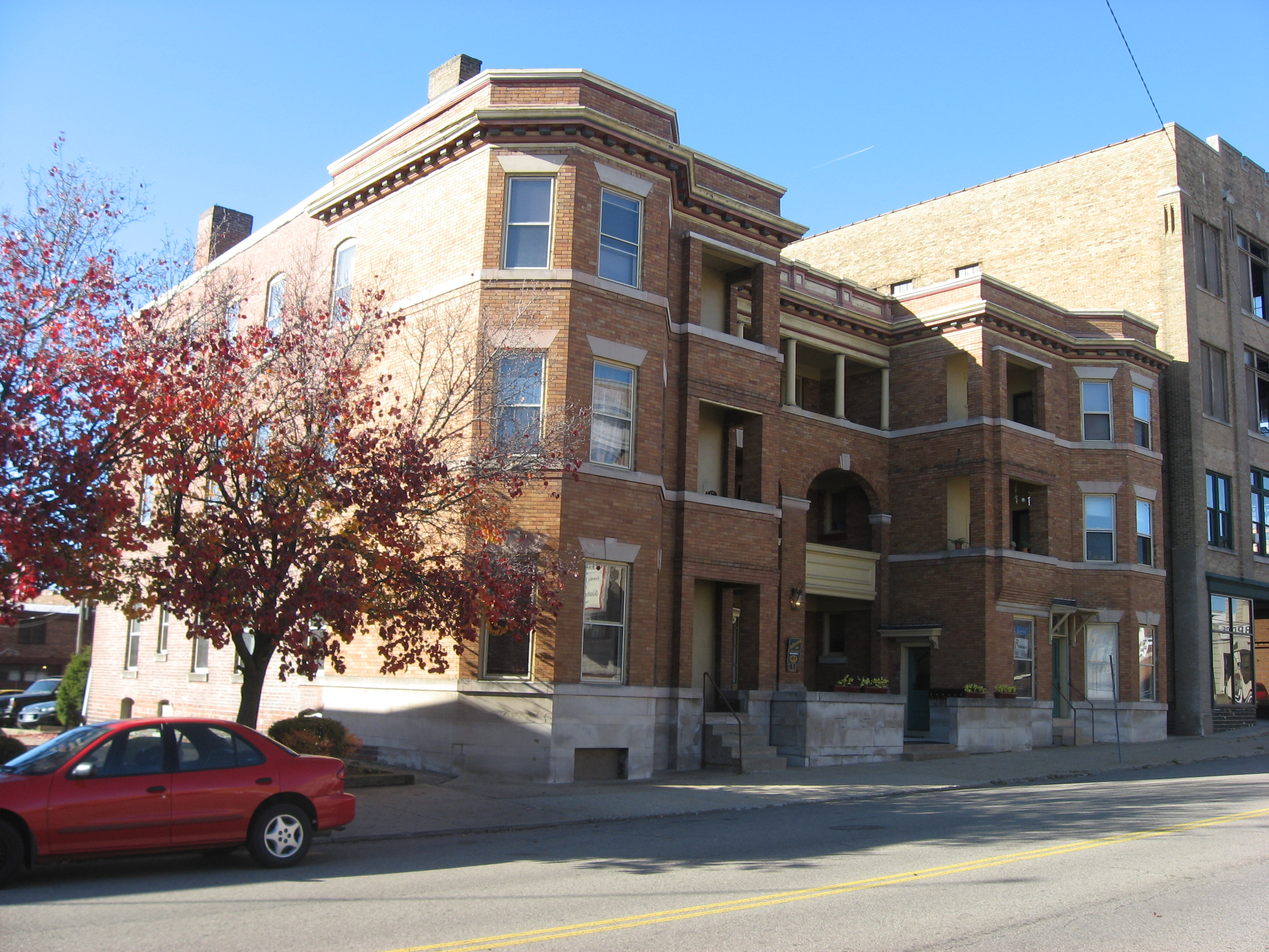 Front of the Adena Court Apartments, located at 41 S. Fourth Street in Zanesville, Ohio, United States. Built in 1906, it is listed on the National Register of Historic Places.